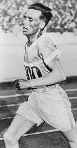 Ville Ritola running at 1924 Summer Olympics in Paris.